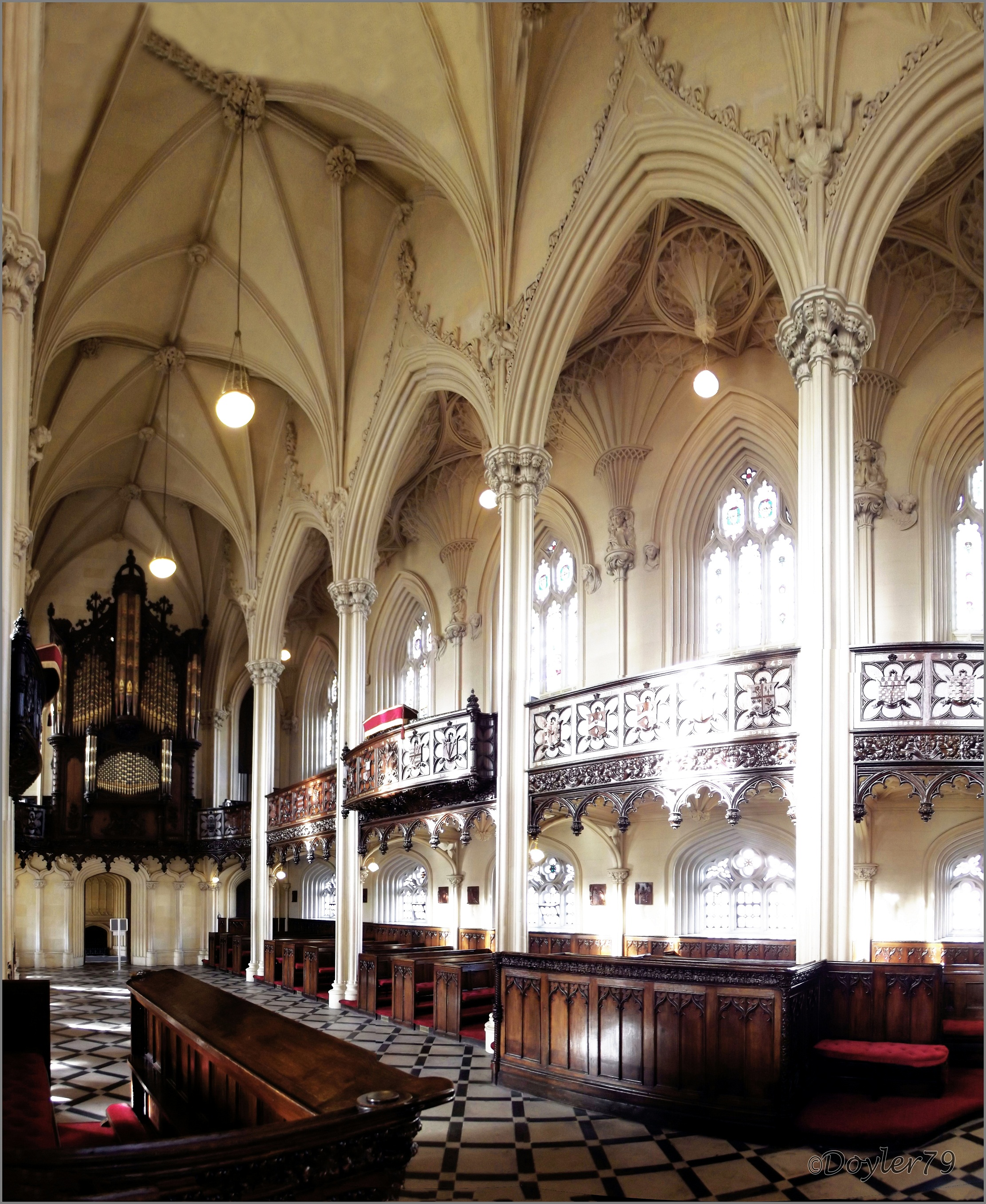 Chapel Royal Dublin Castle interior by George Stapleton Summary Chapel Royal Dublin Castle interior by George Stapleton